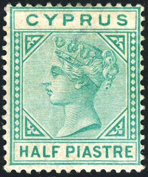 Cyprus 1881 half piastre Emerald Green stamp SG11 SC11.